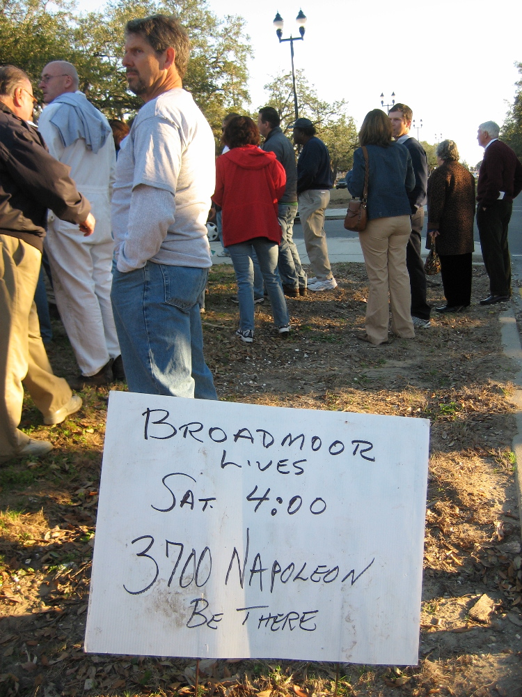 New Orleans after Hurricane Katrina: Formerly flooded Broadmoor neighborhood residents hold rally on the Napoleon Avenue neutral ground (median), after city recovery planning map came out suggesting the low-lying neighborhood be turned into a park.